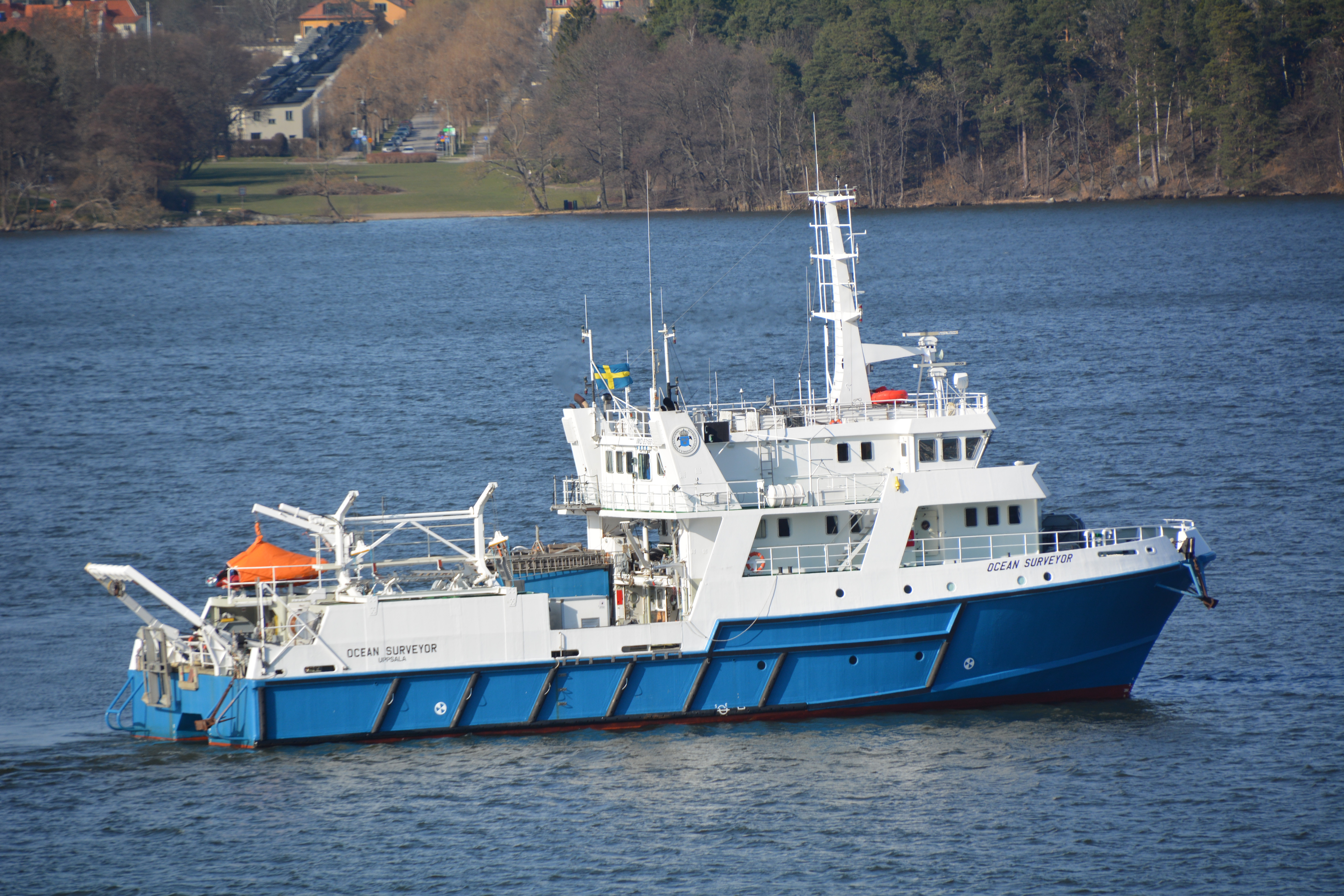 Ocean Surveyor during research work in Lake Mälaren in Stockholm, Sweden